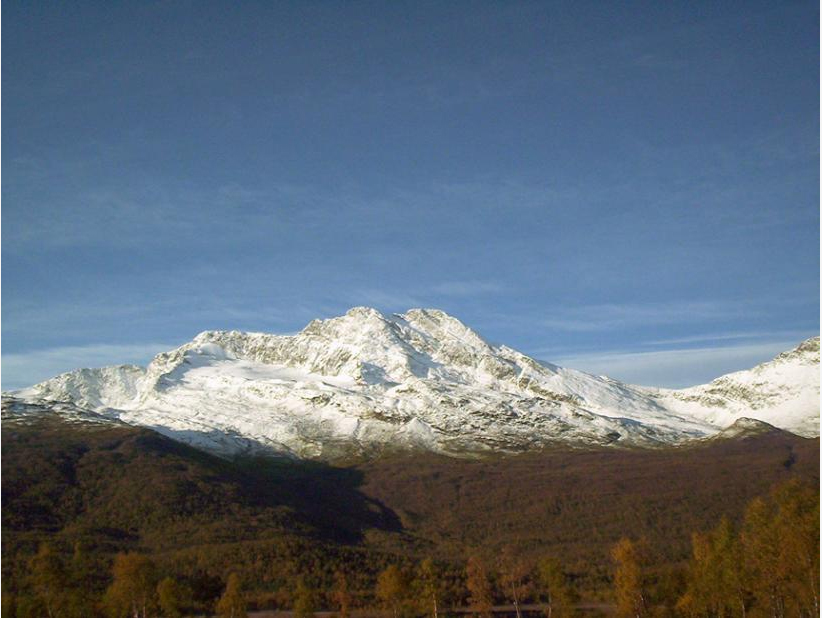 The mountain Skjomtind near Narvik, known as "The sleeping Queen"